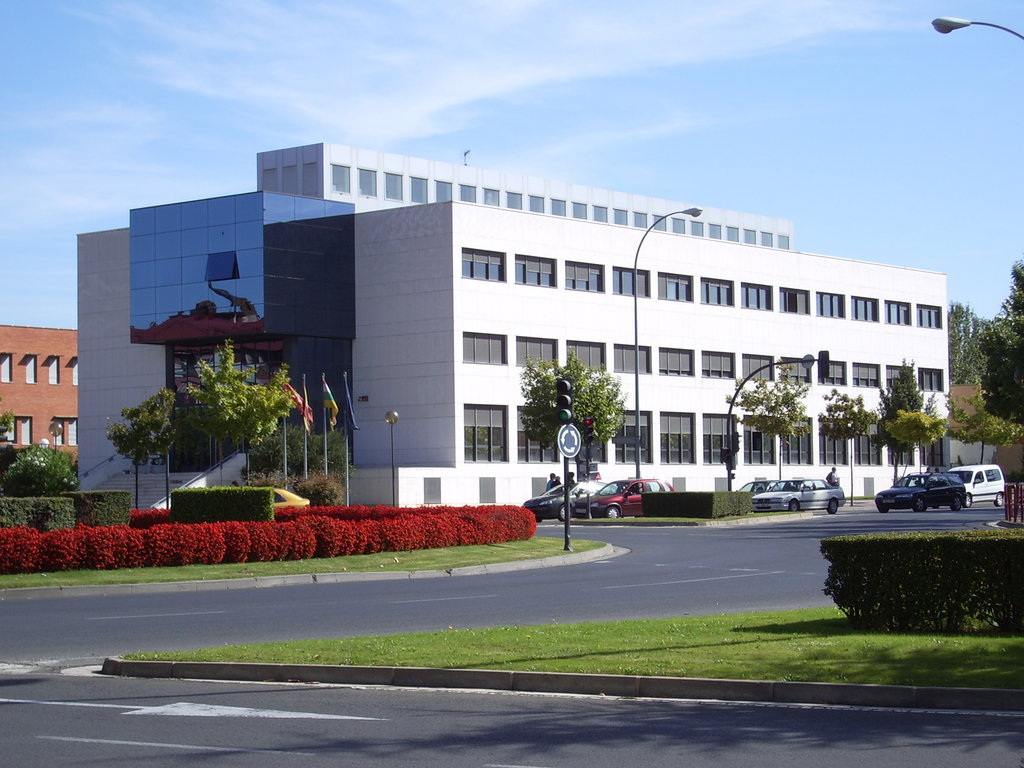 Rectorado (University Headquarters) of Universidad de La Rioja (Logroño)